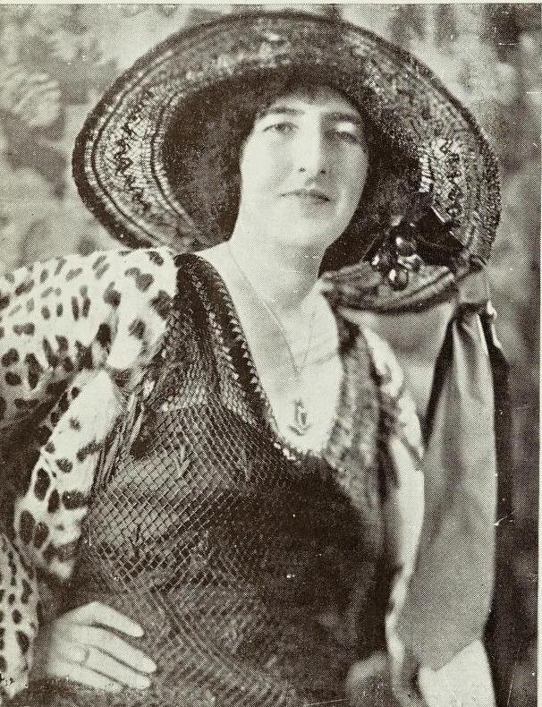 A middle-aged white woman, wearing a wide-brimmed hat and a leopard-print jacket; she is smiling, with her hand on her waist.